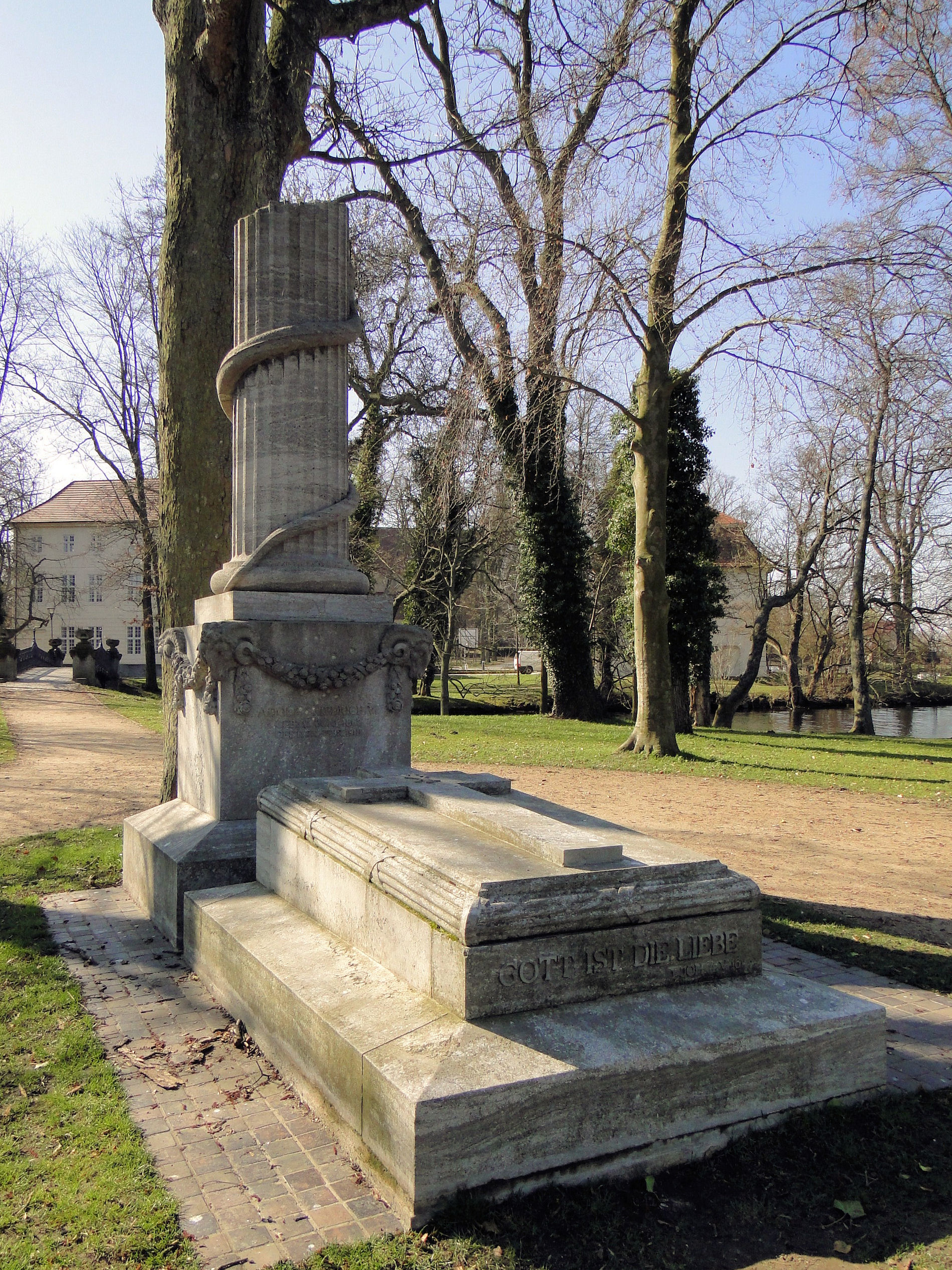 Grave of Adolf Friedrich VI. on the Liebesinsel (love isle) at Castle in Mirow, disctrict Mecklenburg-Strelitz, Mecklenburg-Vorpommern, Germany